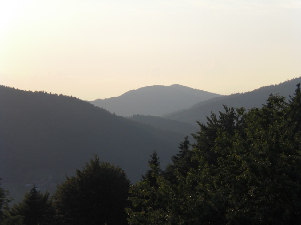 A picture of Vogelsang, Bavaria, from Grafling towards the northwest